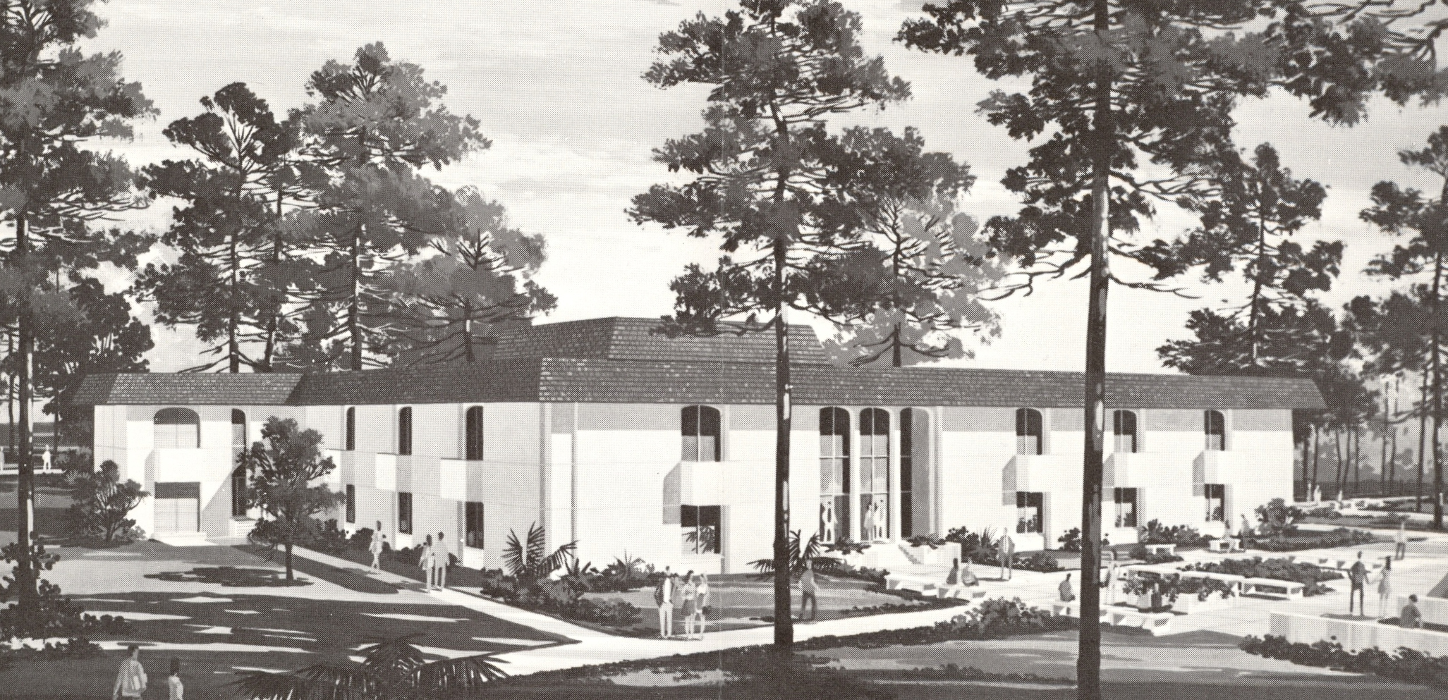 Design of the Education Center at then Valdosta State College, now Valdosta State University.